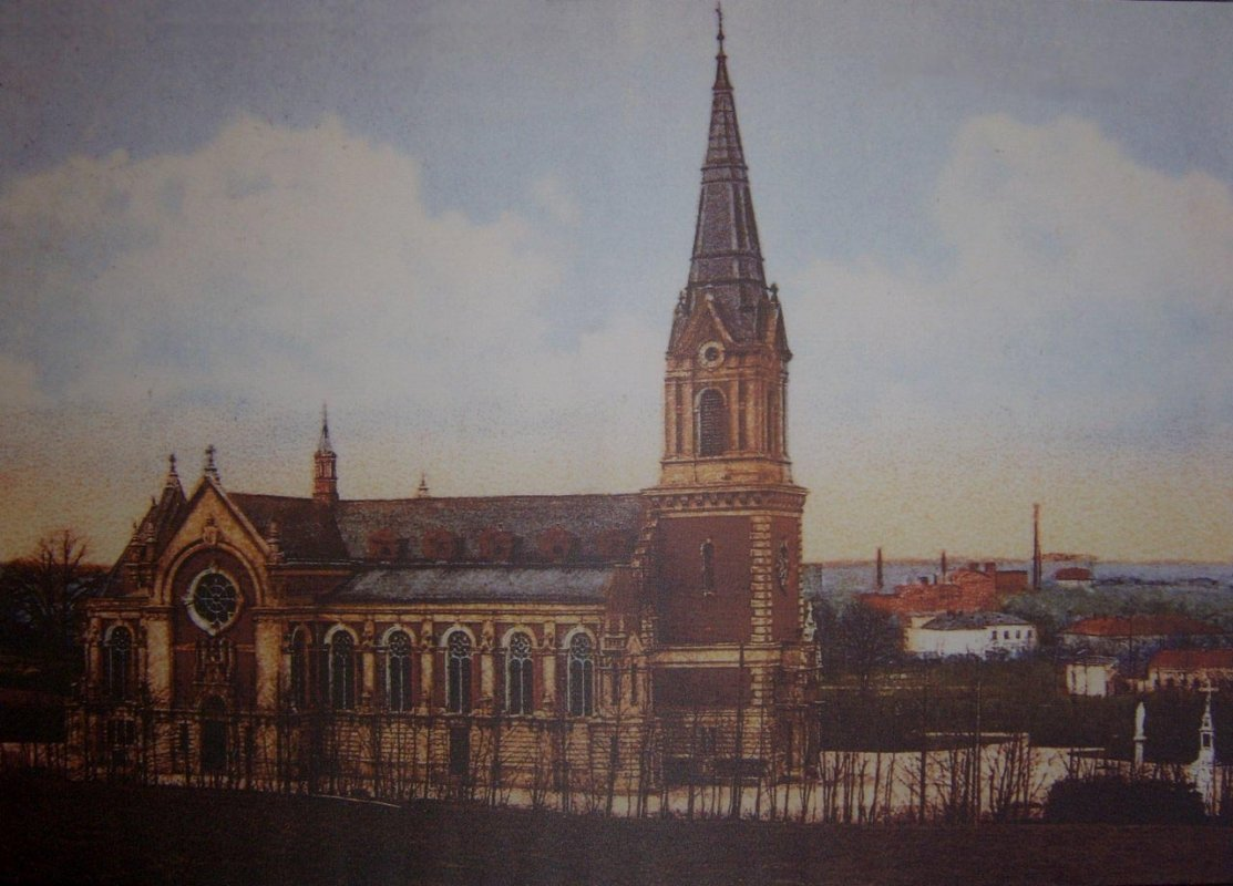 St. Henry's church in Karvinná in 1921